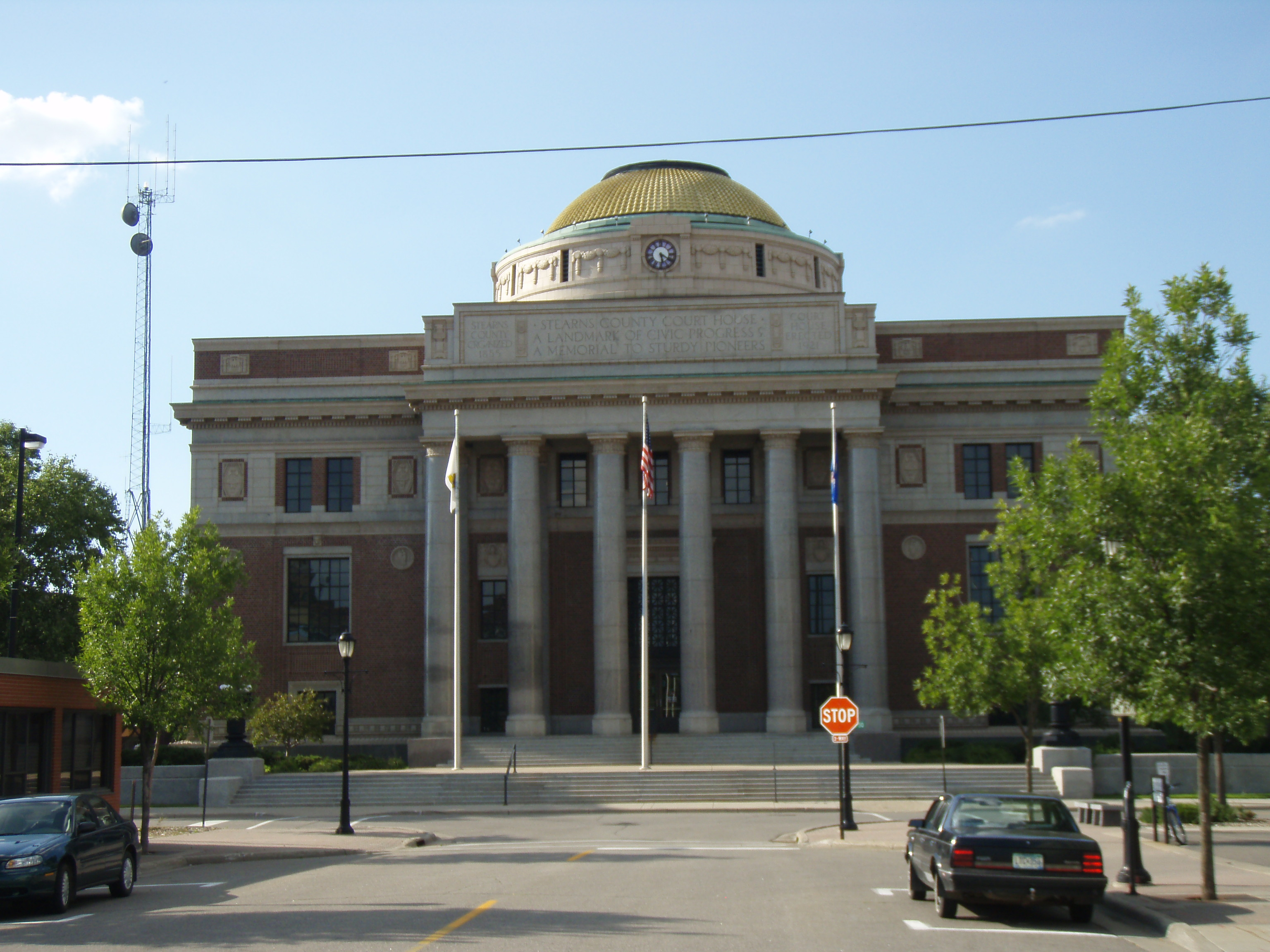 Stearns County Courthouse and Jail in St. Cloud, Minnesota, listed on the National Register of Historic Places.